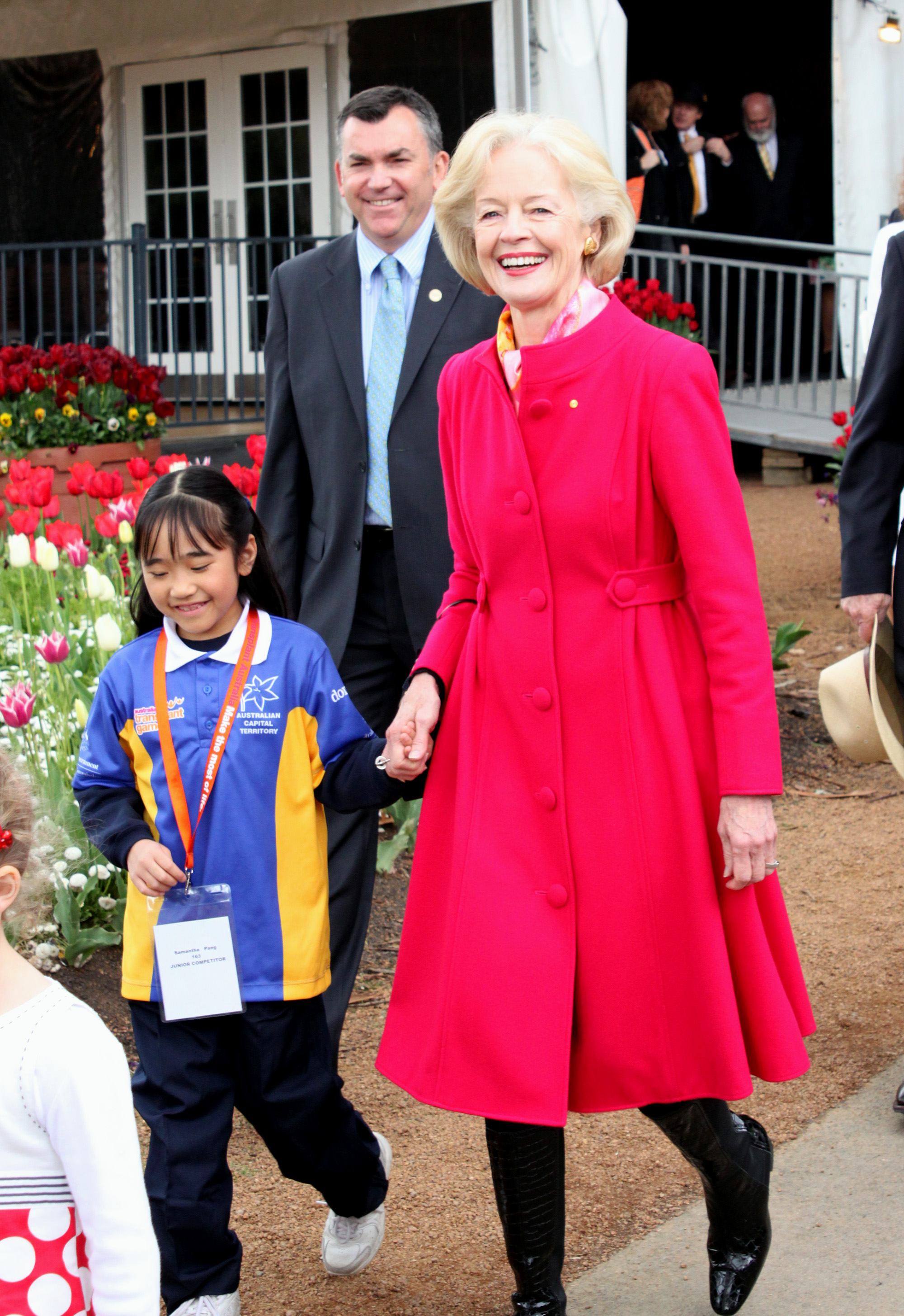 During 03/10/2010, as a part of the national flower show Floriade in Canberra, ACT, the Governor-General made an appearance and allowed the local crowd to take photos.